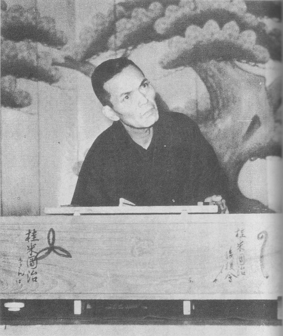 Katsura Yonedanji IV (Rakugoka). taken in December 1950.